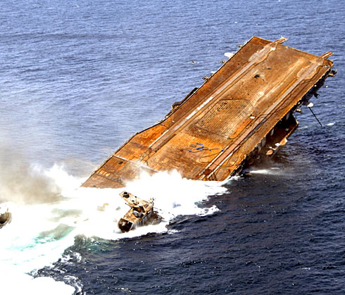 The ex-USS Oriskany, a decommissioned aircraft carrier, being sunk to form an artificial reef.